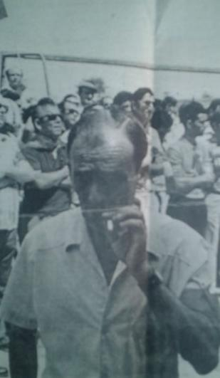 Manuel Romero in a protest during the Franco regime.